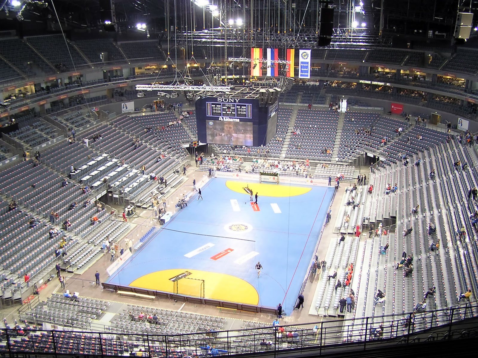 The Kölnarena (Cologne Arena) inside, prior the European Club Championships, in November 25th, 2006.